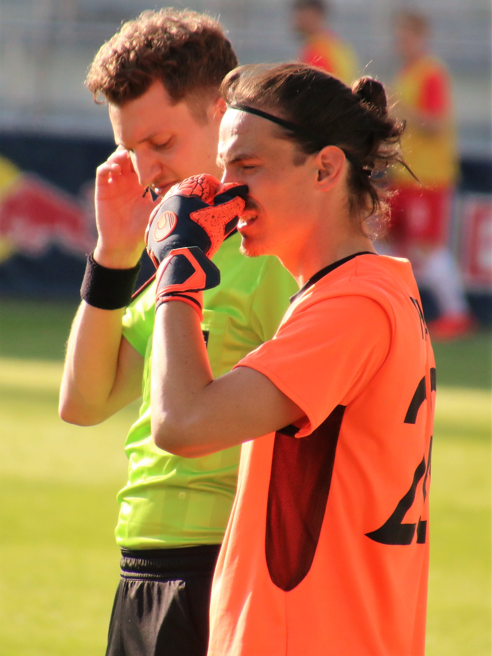 league match Austria 2nd league